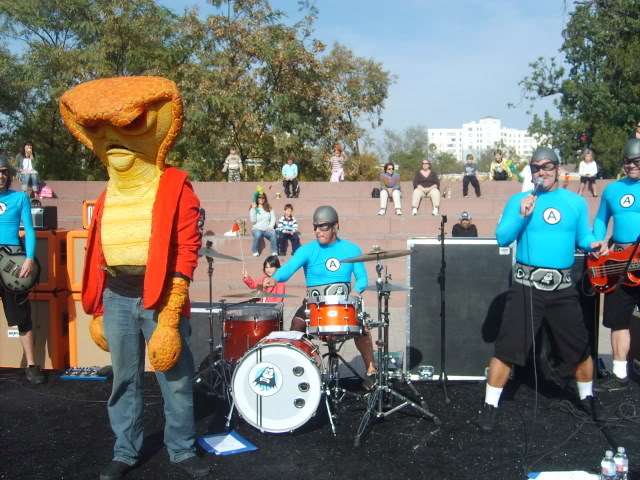 This is a photograph of American rock band The Aquabats, performing at the Los Angeles County Museum of Art on February 18, 2008